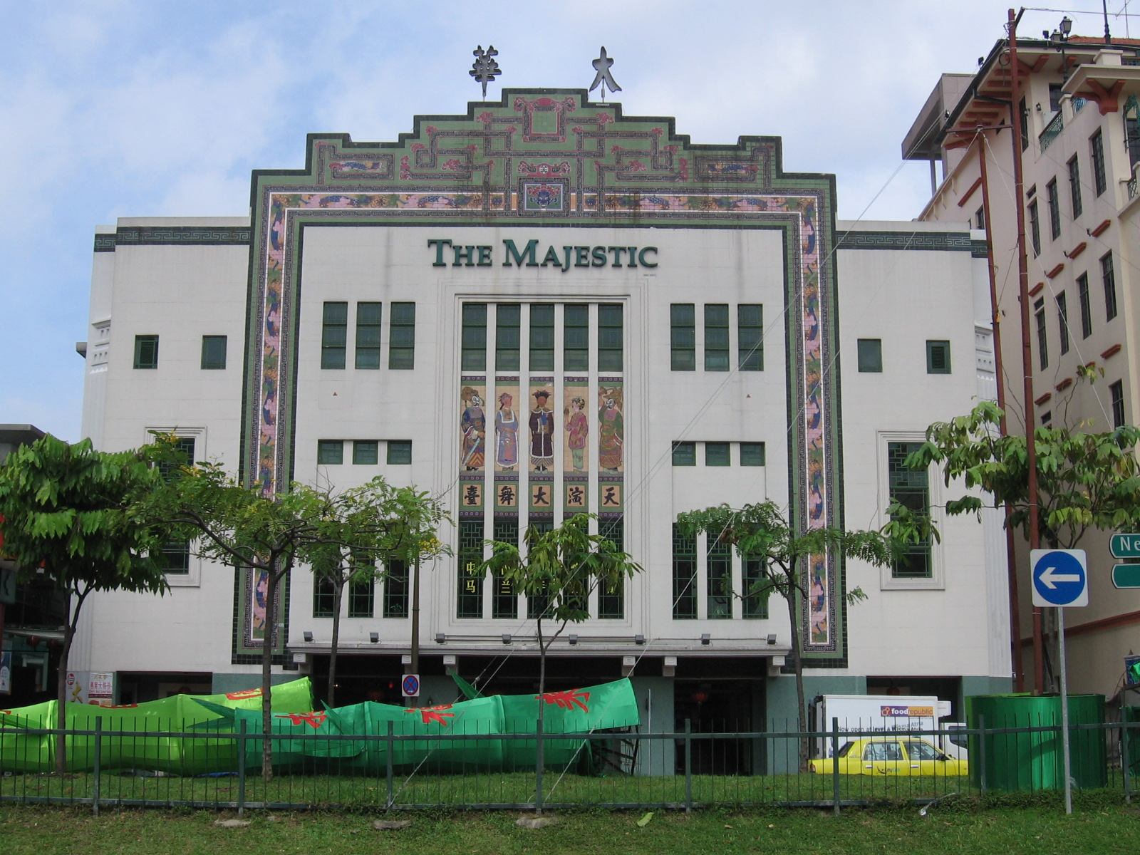 The Majestic. Taken by User:Sengkang of ENglish.Wikipedia in Dec 2005.